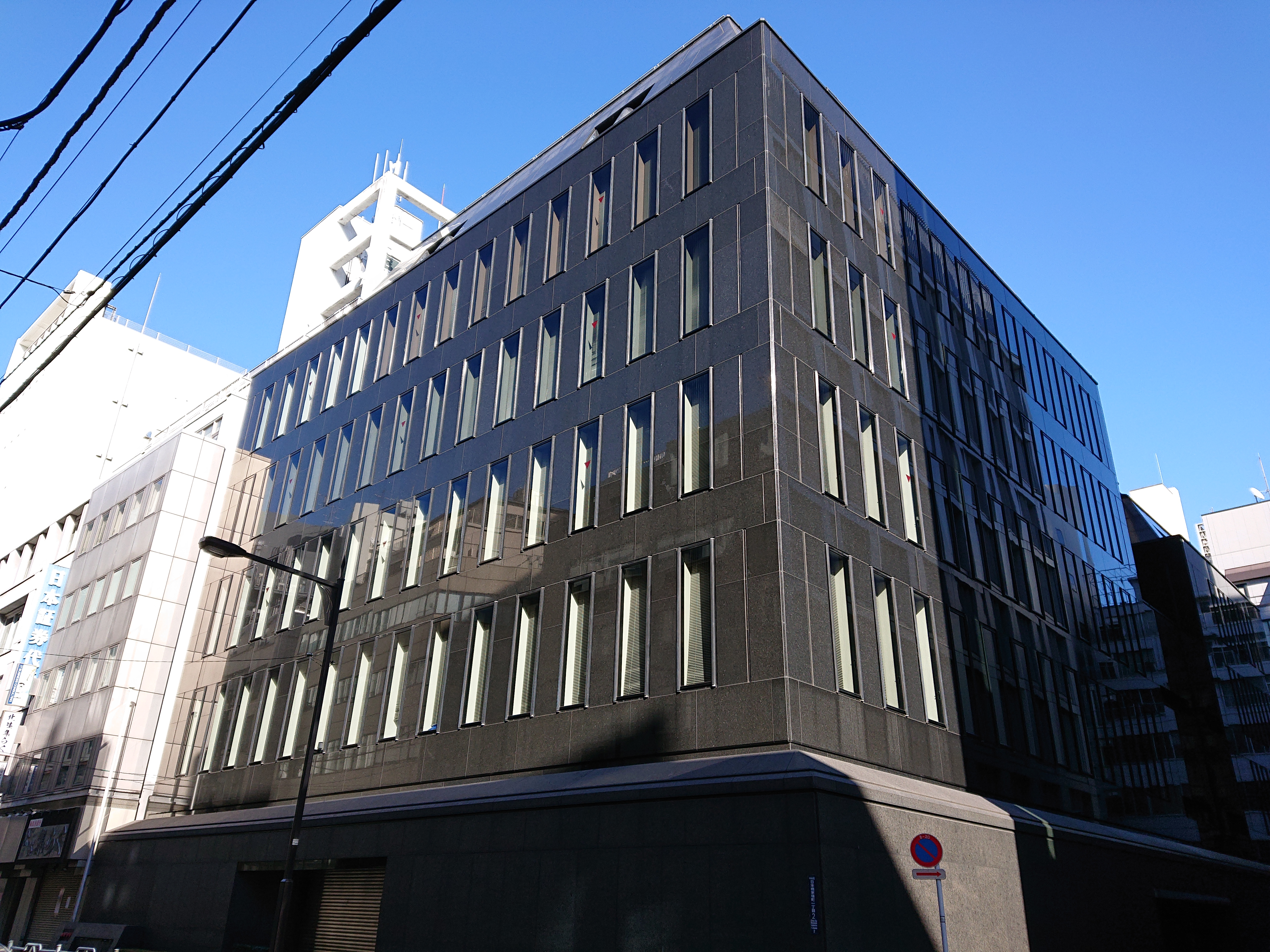 Japan Securities Finance (日本証券金融) headquarters, located at 1-2-10 Nihonbashi-Kayabacho, Chuo, Tokyo, Japan